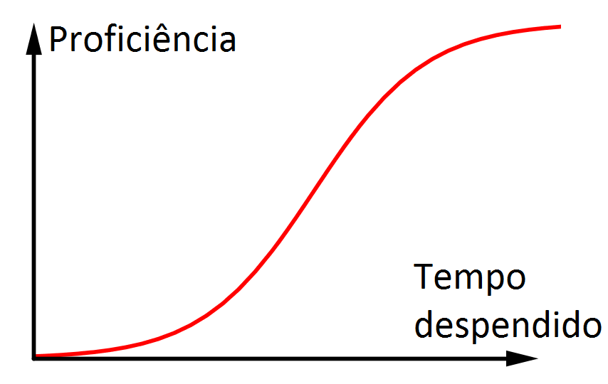 A hypothetical learning curve.